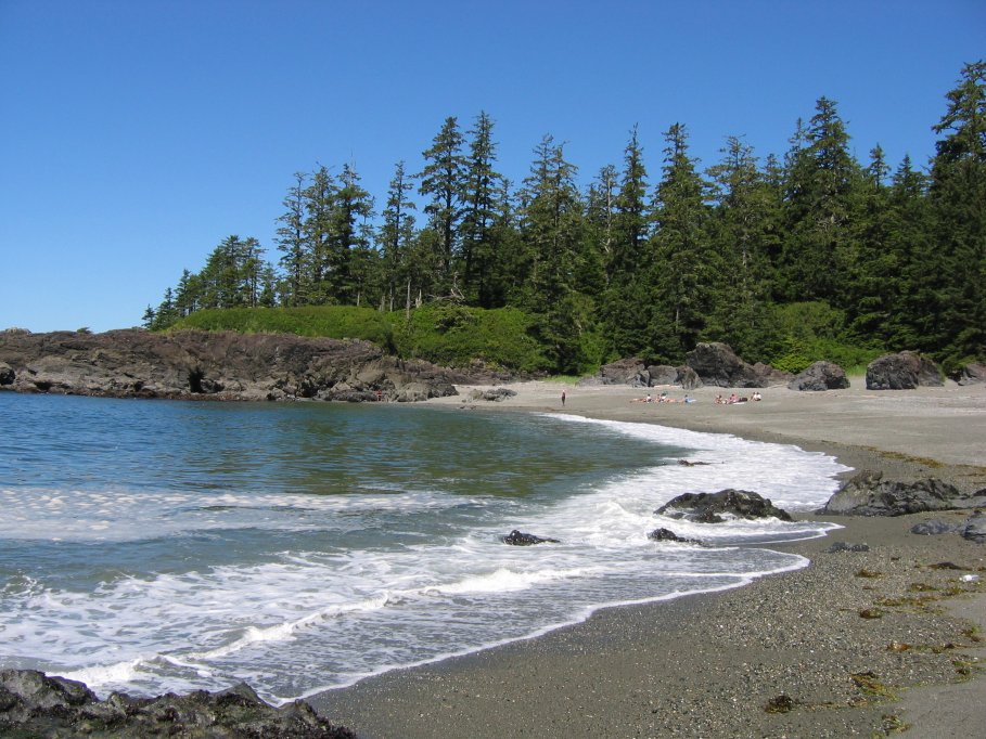 Beach in the Long Beach Area of Pacific Rim National Park on Vancouver Island, Canada